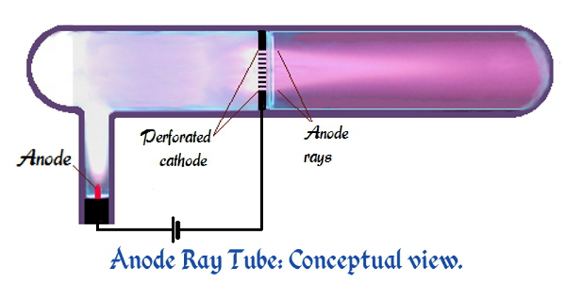 Conceptual representation based on photograph of actual device in operation